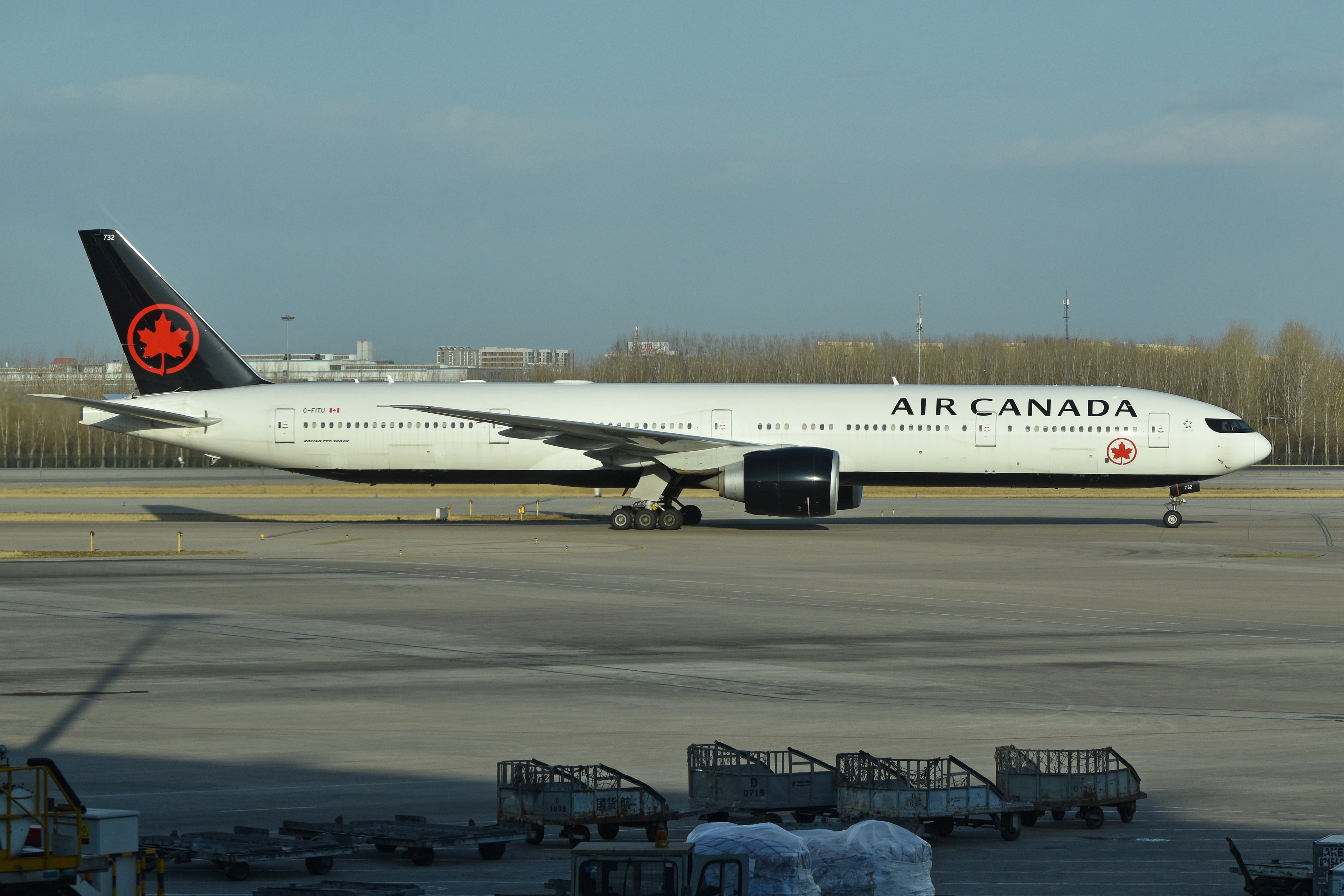 c/n 35254, l/n 626 Built 2007 Seen taxiing in after arriving on flight AC31 / ACA031 from Toronto Beijing Capital International Airport. Beijing, People’s Republic of China. 11th March 2019